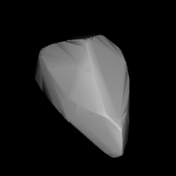 3D convex shape model of 1349 Bechuana, computed using light curve inversion techniques. J. Hanuš, J. Ďurech, M. Brož, B. D. Warner (June 2011). "A study of asteroid pole-latitude distribution based on an extended set of shape models derived by the lightcurve inversion method". Astronomy and Astrophysics 530: A134. ISSN 0004-6361. arXiv